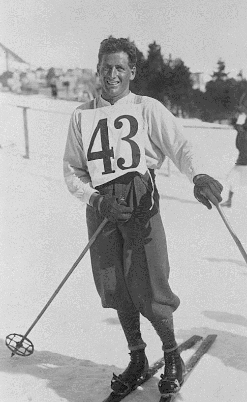 Ludwig Boeck of Germany in action during the 18 kilometres Cross-Country Skiing event at the 1928 Winter Olympic Games in St Moritz, Switzerland. Boeck finished in 13th place.